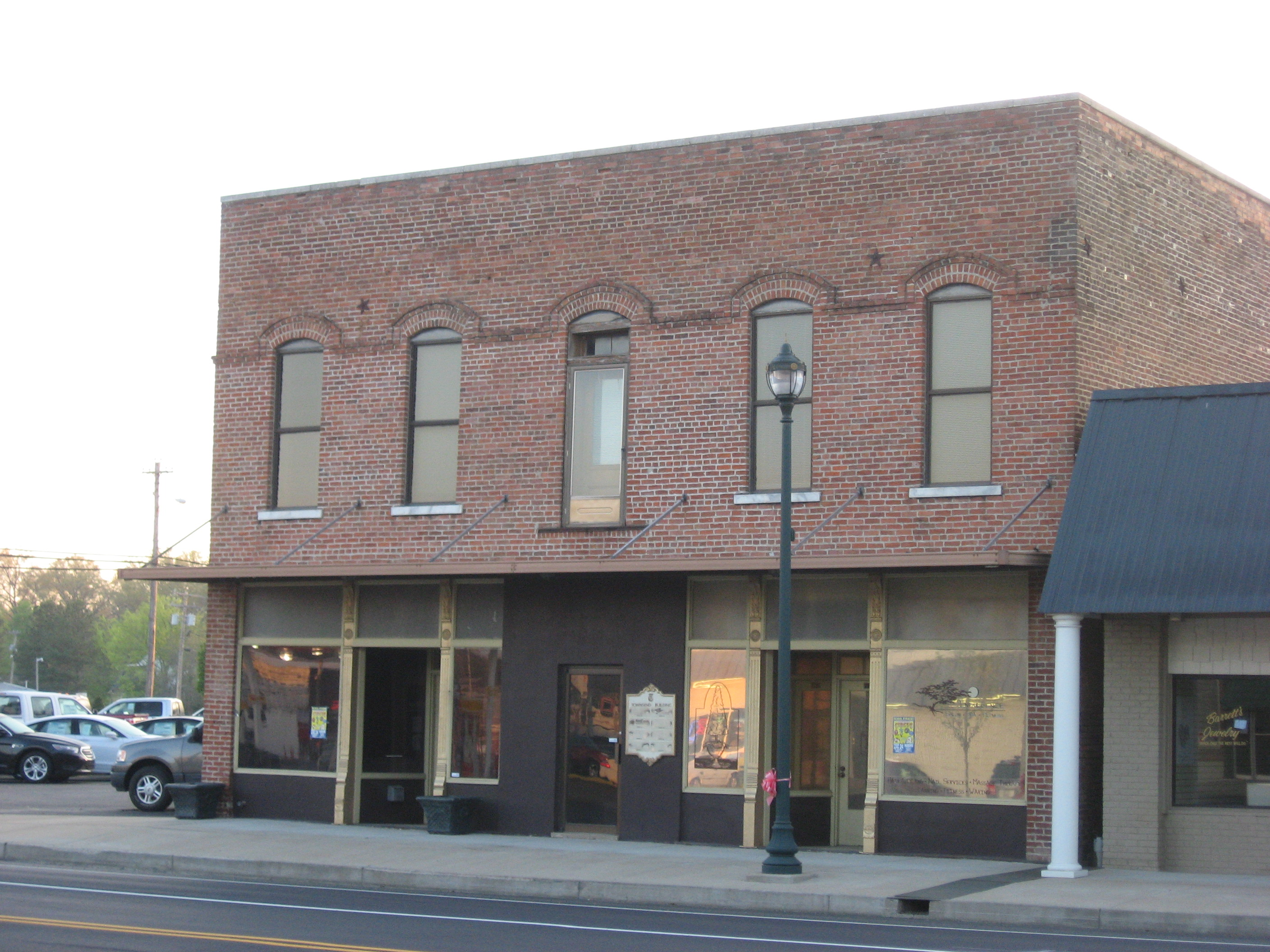 Front and southern side of the John P. Rains Hotel, located at 106-108 Tennessee Avenue South (State Route 69) in Parsons, Tennessee, United States. Built in 1898, it is listed on the National Register of Historic Places.